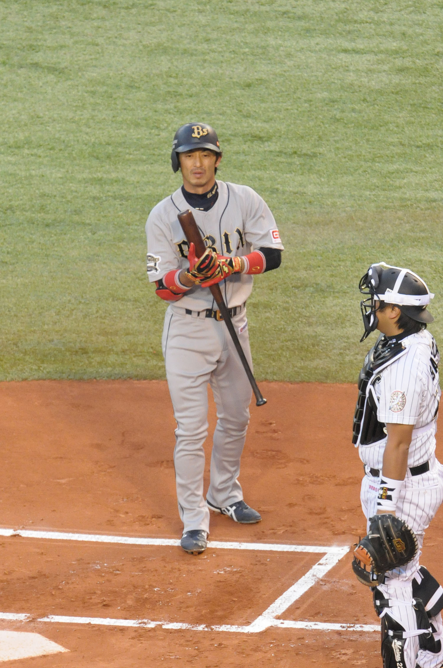 Mitsutaka Gotoh, infielder of the Orix Buffaloes, at Chiba Marine Stadium.